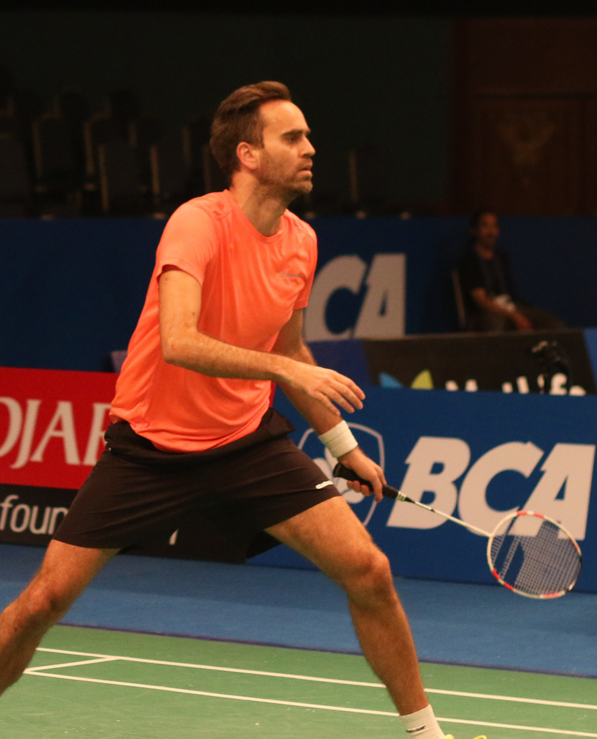 Joachim Fischer Nielsen at Indonesia Open 2017 badminton tournament